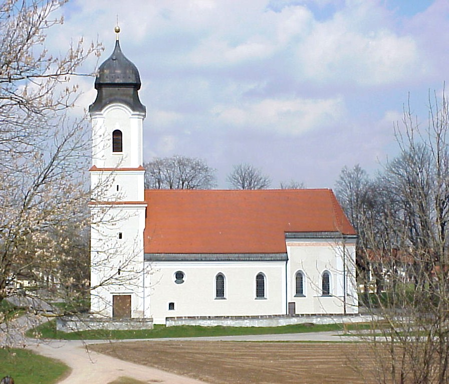 Siegertsbrunn, view of Sanctuary of St Leonard from south.